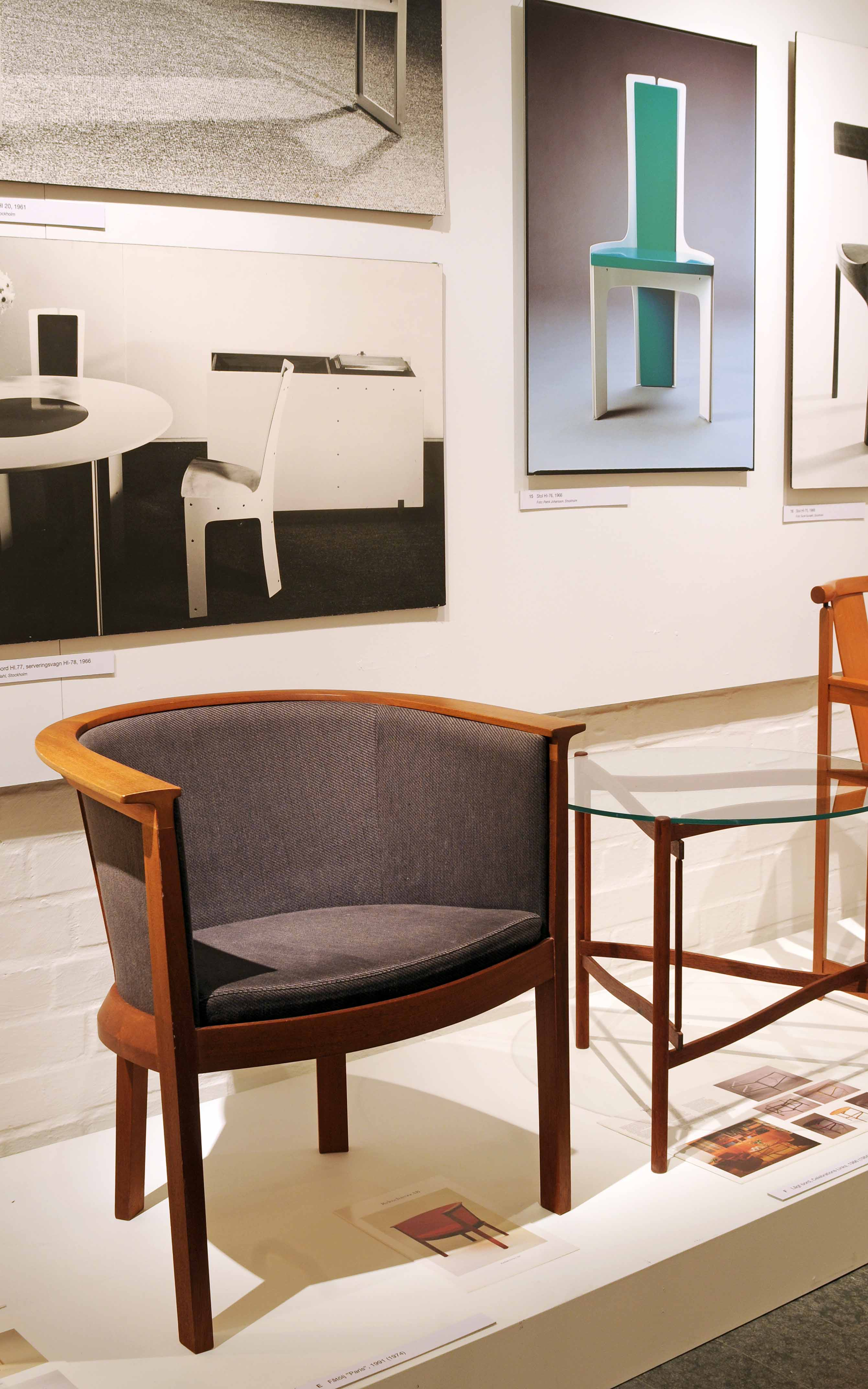 Armchair PARIS 1991 (1974) mahogny black fabric